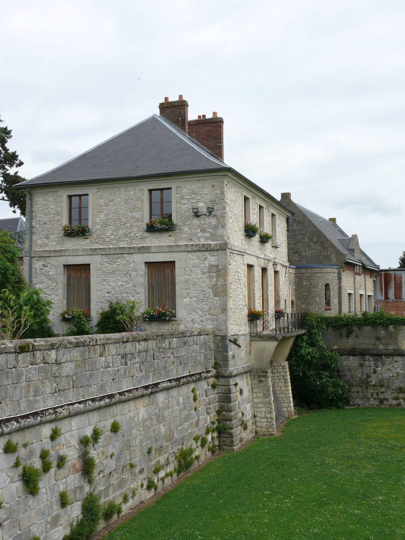 The town hall of Le Plessis-Belleville (Oise, Picardie, France).